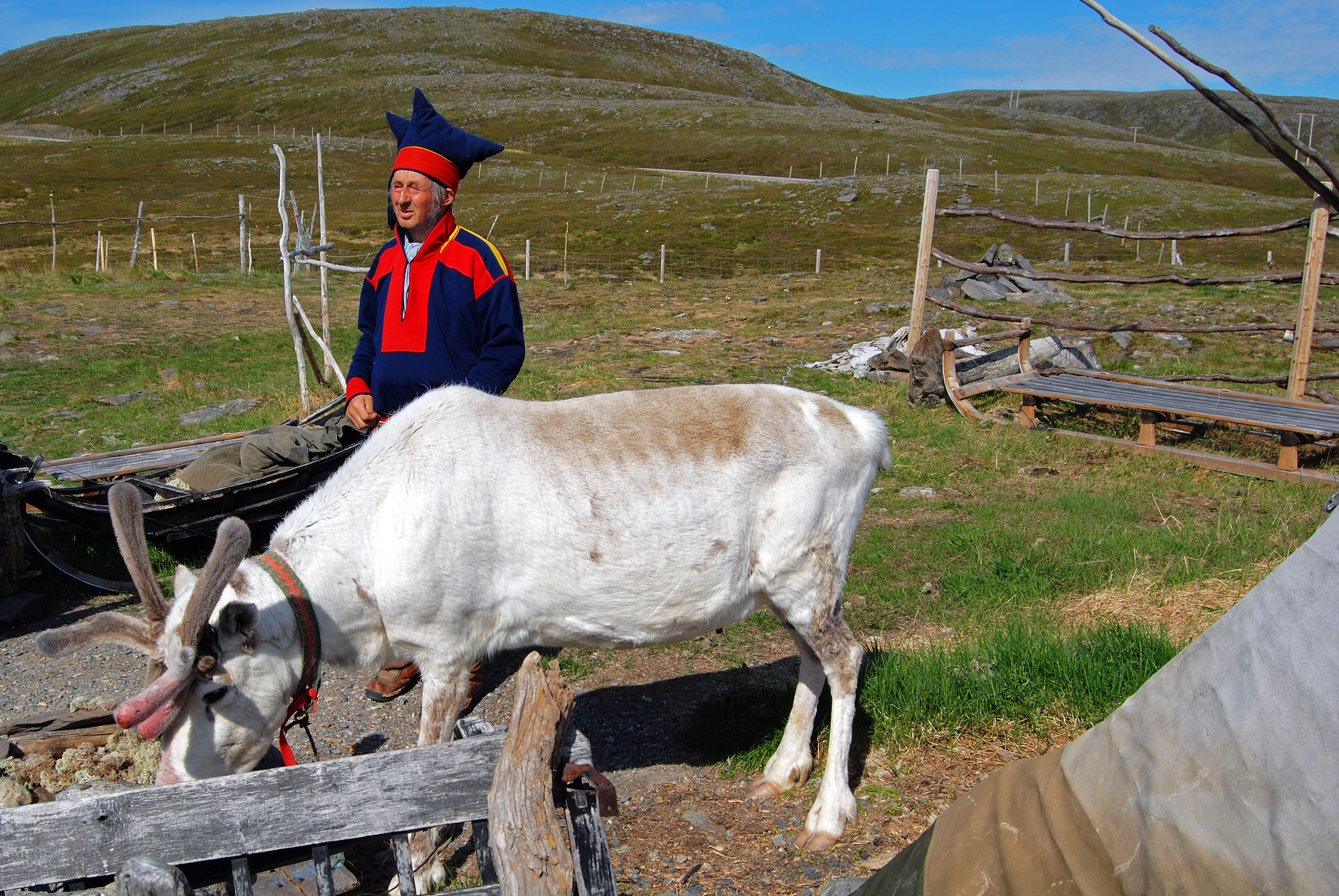 The Sami people, also spelled Sámi or Saami, are the indigenous Finno-Ugric people inhabiting the Arctic area of Sápmi. This is a small siida, a reindeer foraging area